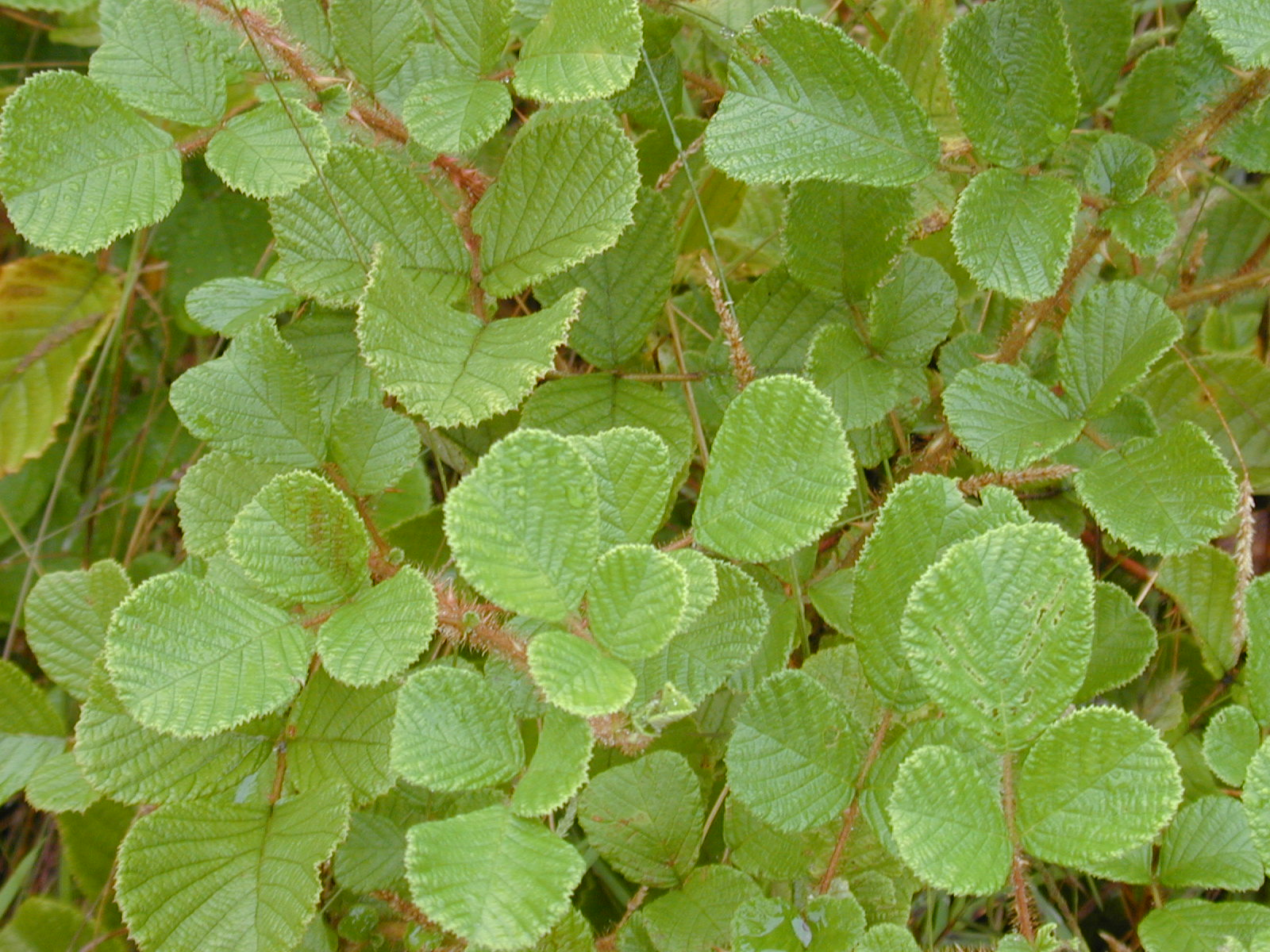 Rubus ellipticus (leaves). Location: Hawaii, Hwy11 Mountain view